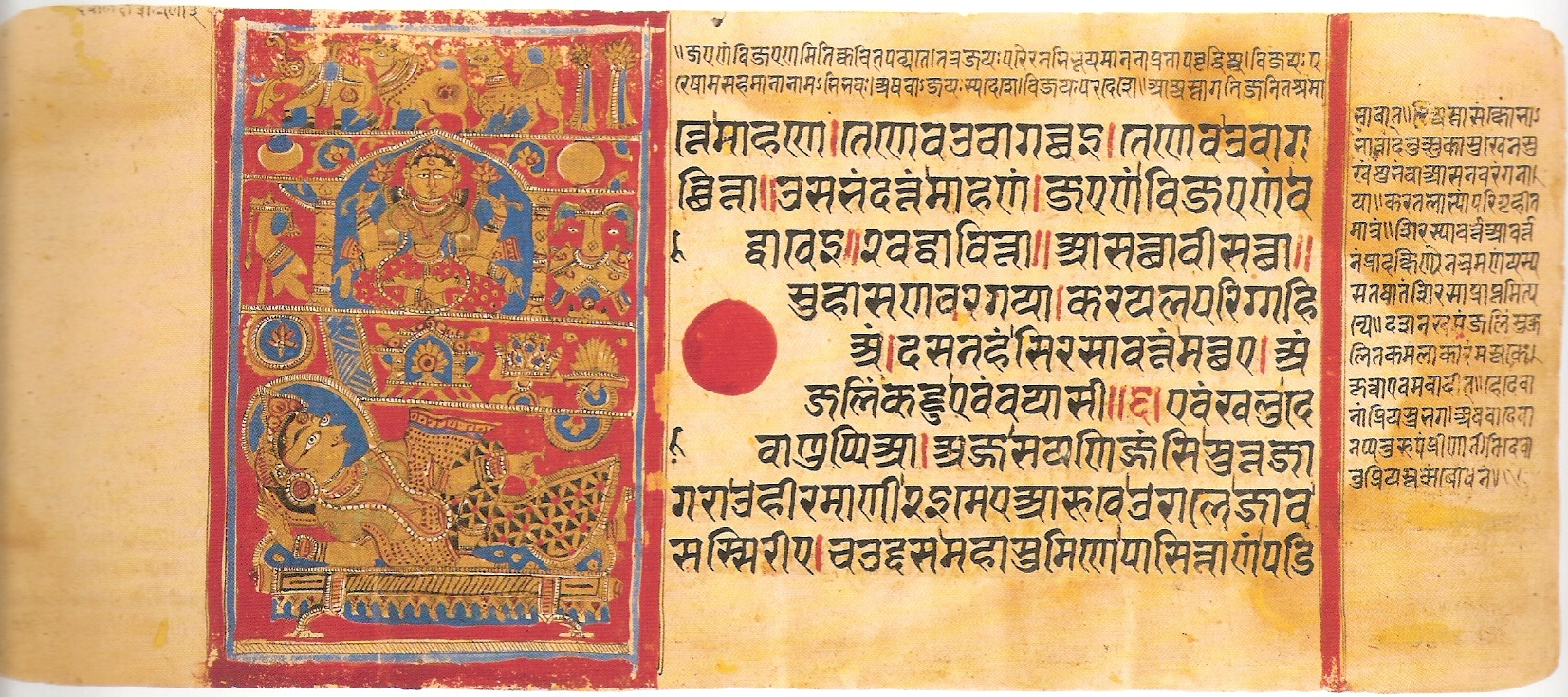 Queen Trishla, Mahaviras mother has 14 auspicious dreams. Folio 4 from Kalpasutra series, loose leaf manuscript, Patan, Gujarat. c. 1472.